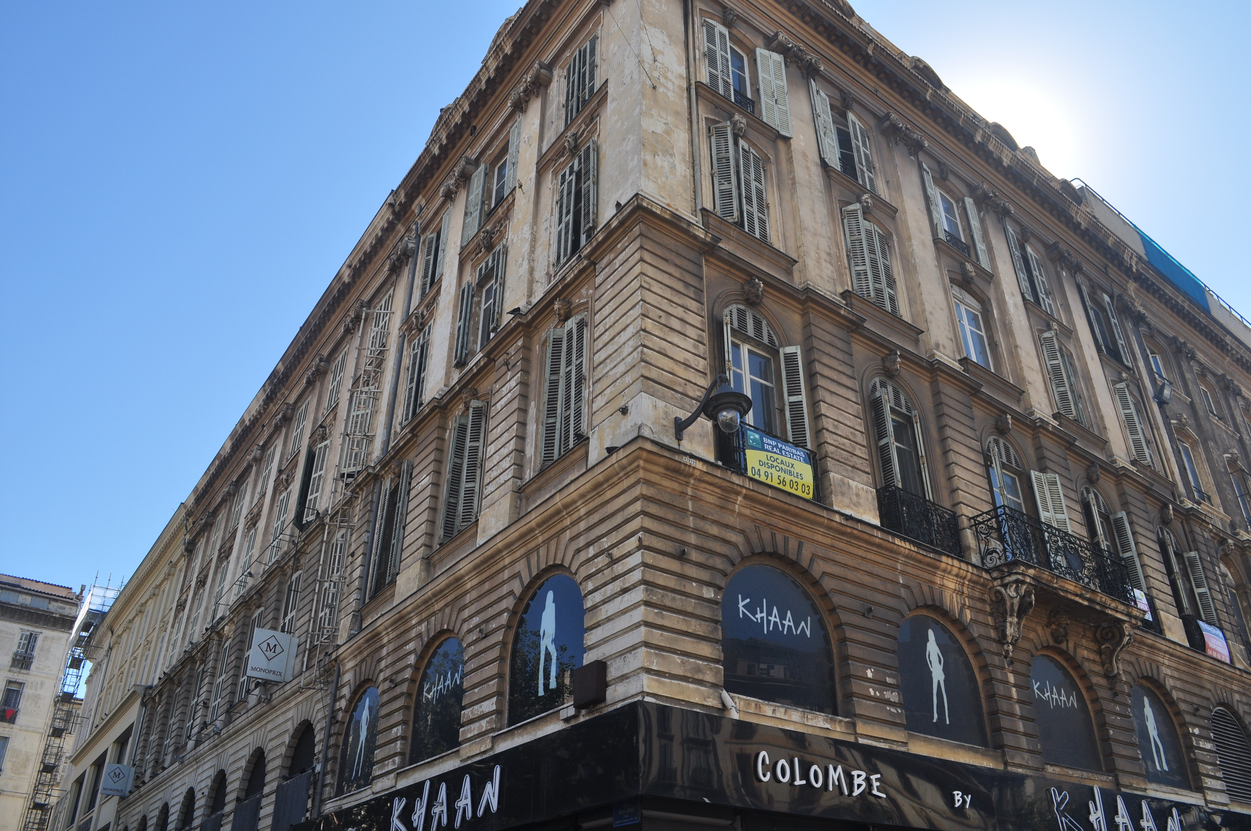 Marseille(France)Building, 40 la Canebière